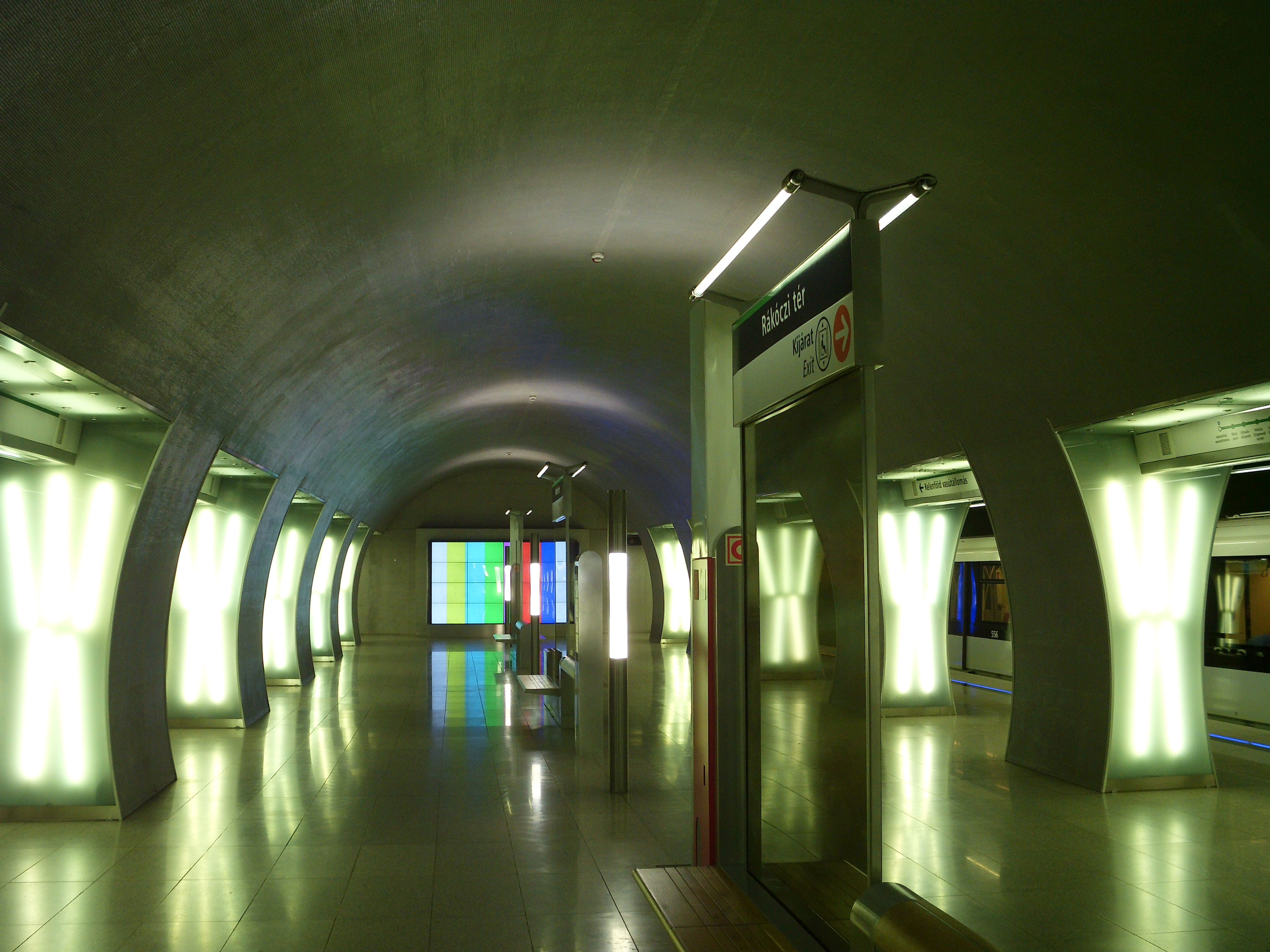 The lighting and decoration of Rákóczi tér metro station on M4 route in Budapest, Hungary.